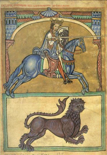 Alfonso